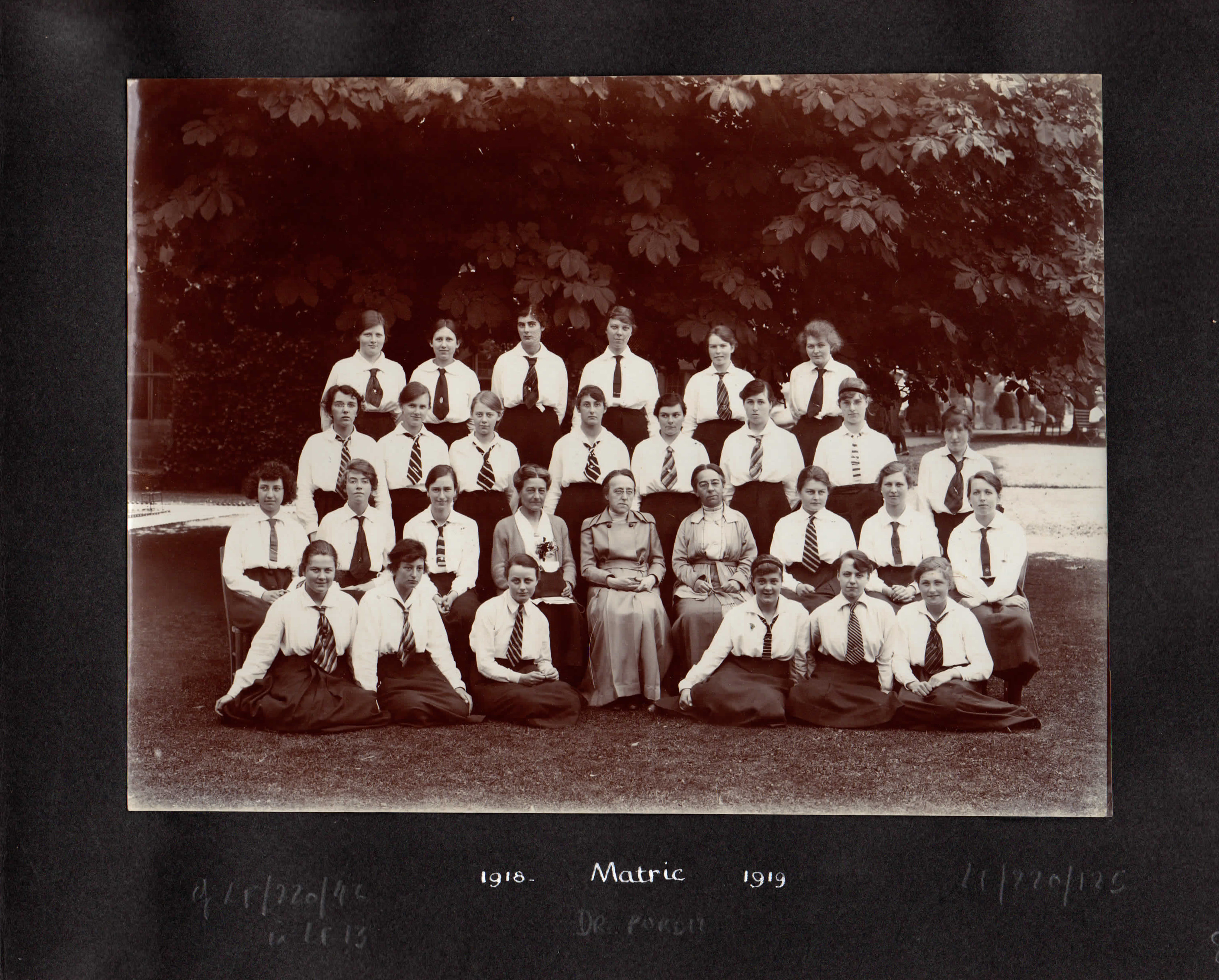 Dr Purdie with Cheltenham Ladies' Matriculation Class, 1918-1919. Dr Purdie is in the centre of the first seated row